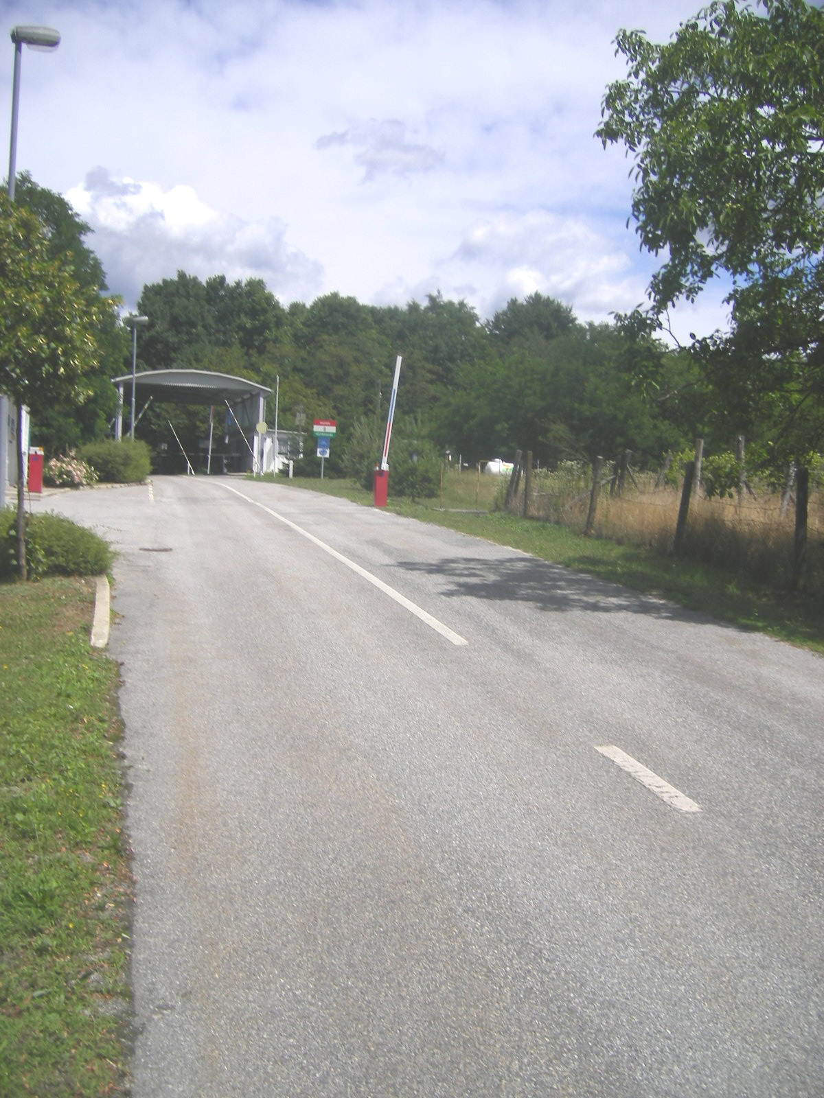 Former border station at Prosenjakovci